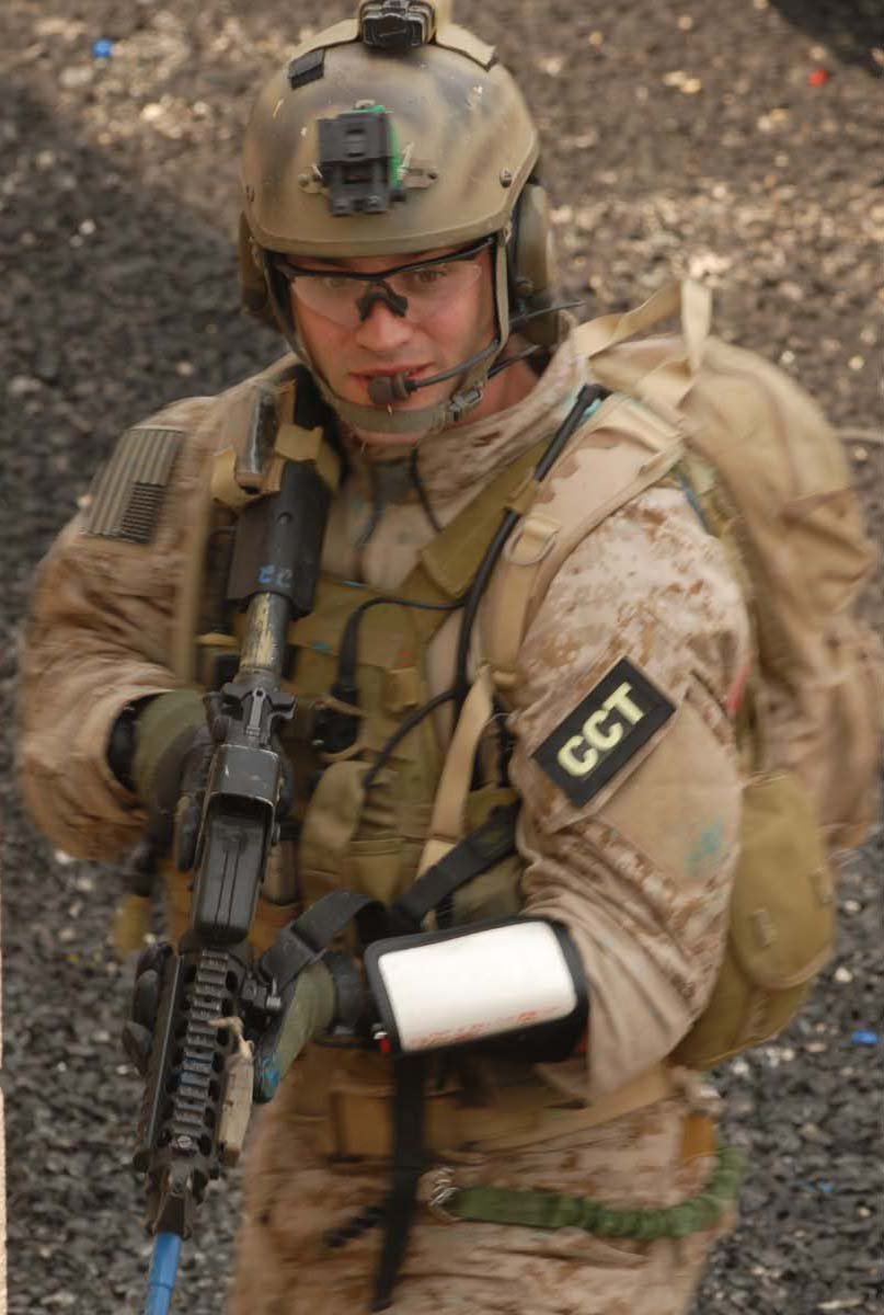 An United States Air Force Combat Controller (wearing US MARPAT uniform) during a simulated patrol in a Military Operations in Urban Terrain exercise.